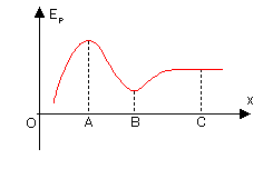 Used to escribe those three kinds of balance.